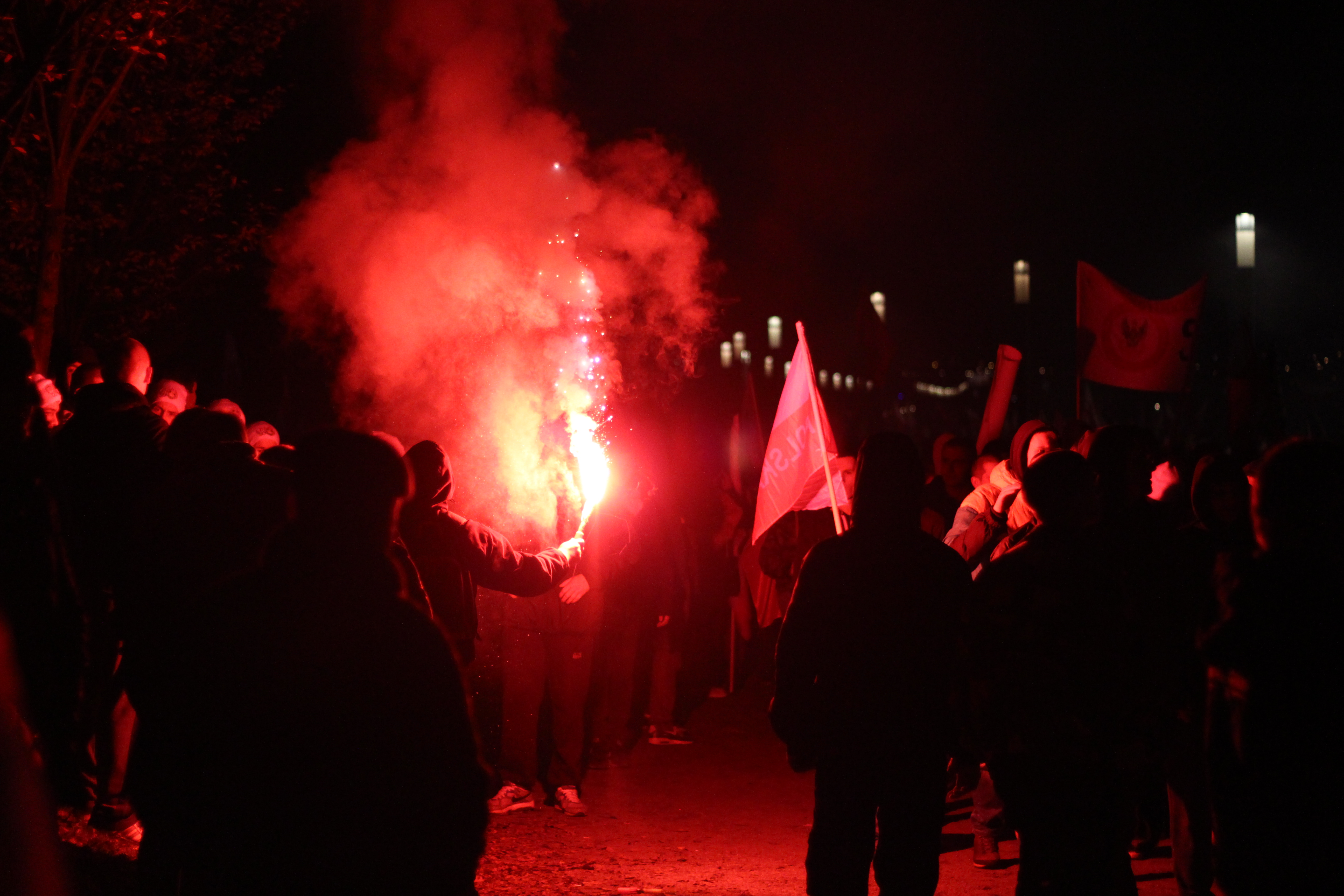 March of Independence in Warsaw. The march was initiated by the All-Polish Youth and the National Radical Camp, and it is organized by the Association of the March of Independence. Opponents accuse the March of promoting fascism, racism and anti-Semitism. In the picture: participants of the march are standing on the street holding a red race.